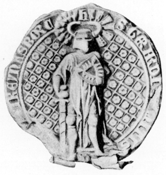 Seal of Count Gerhard III of Holstein. This seal is known from documents dating 1321-1325.